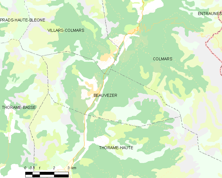 Map commune FR insee code 04025.png Légende